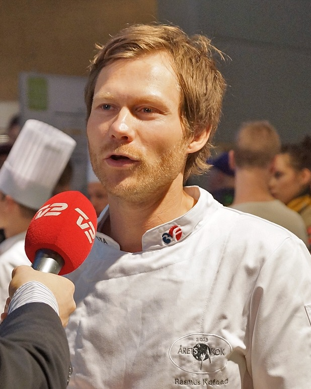 Rasmus Kofoed Danish chef and restaurateur at "Copenhagen Food Fair"